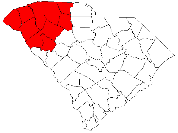 Map of the 10-county Upstate region of South Carolina. Created with the GIMP. Made by User:Acntx.